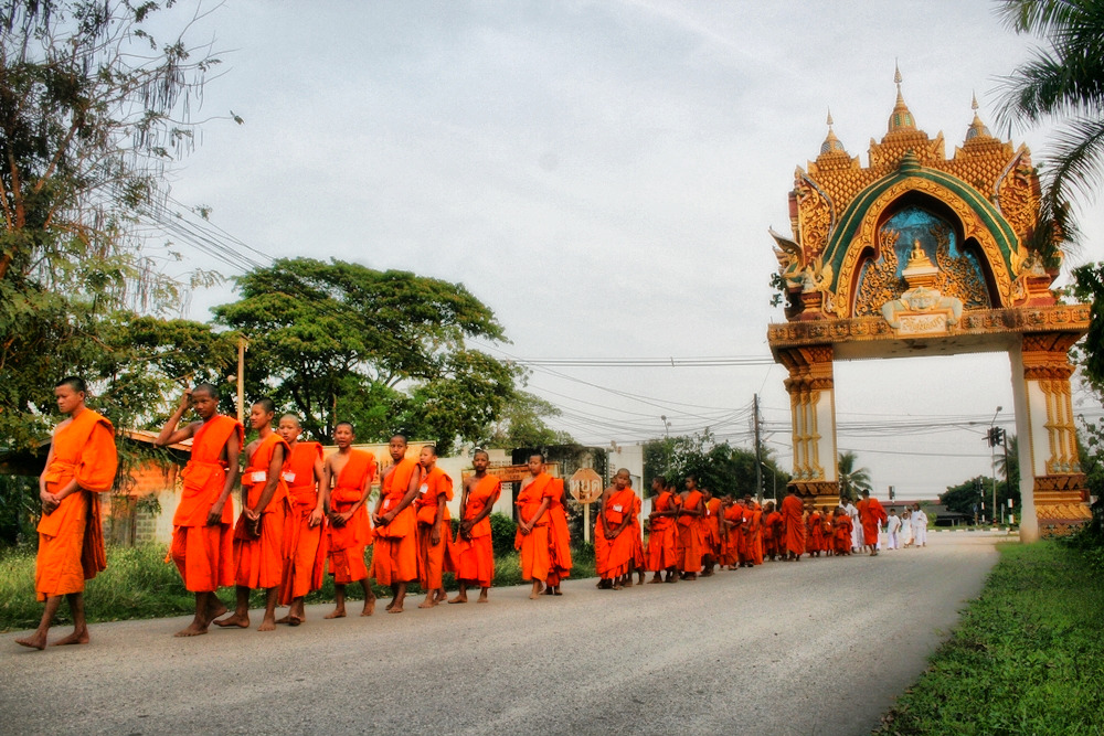 Buddhist child monks in Wat Khung Taphao Mueang Uttaradit, Uttaradit Province, Thailand.